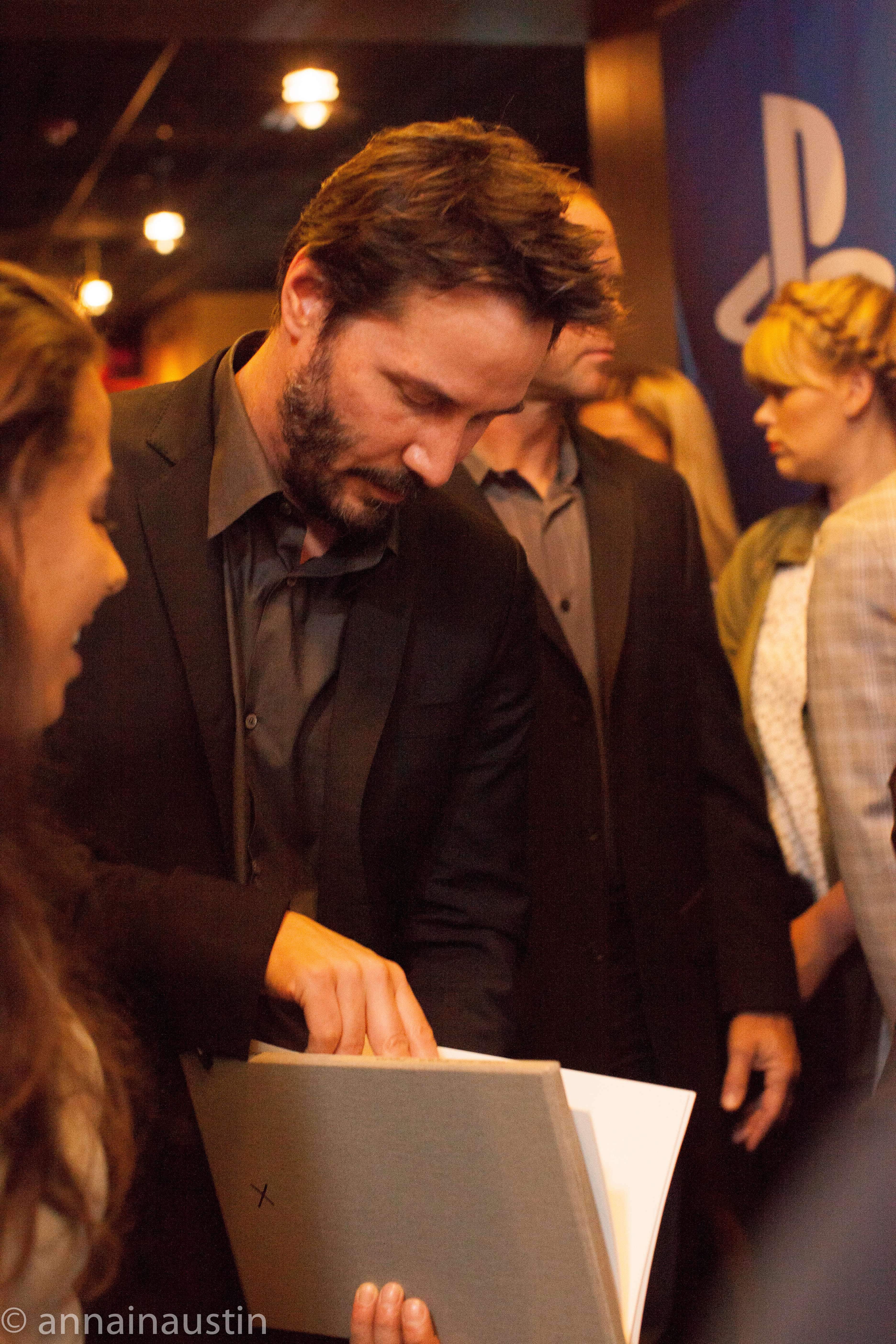 Keanu Reeves, John Wick Red Carpet, Fantastic Fest 2014 Austin, Texas 2014--11.jpg